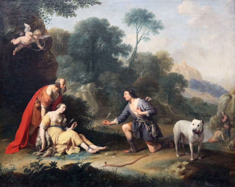 Herman Saftleven - Silvio and Dorinda